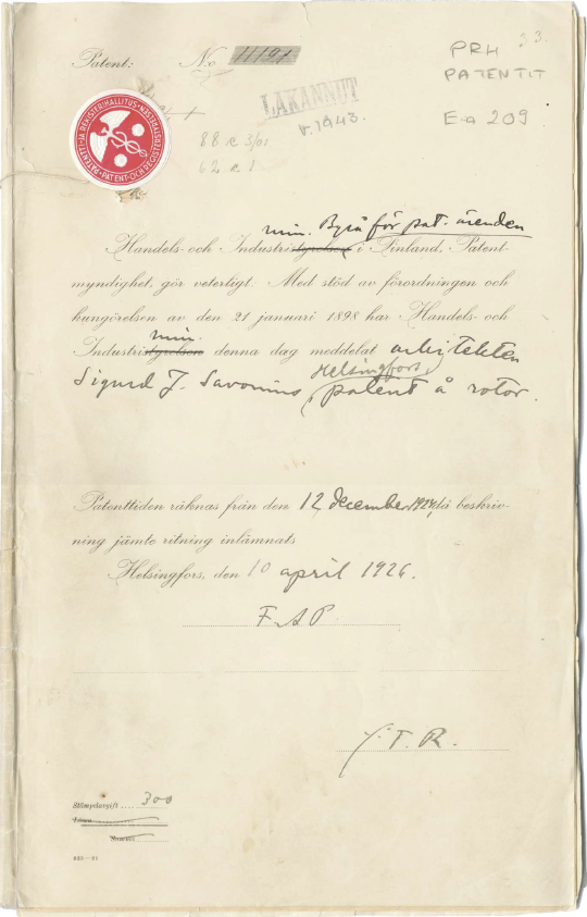 Original cover sheet of the Savonius rotor finish patent.